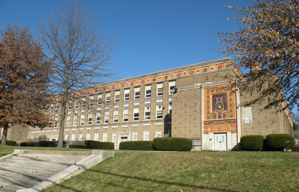 Picture of Lemington Elementary School located at 7061 Lemington Avenue in the Lincoln-Lemington-Belmar neighborhood of Pittsburgh, Pennsylvania, on December 12, 2009. The school was built in 1937, and is listed on the National Register of Historic Places. Portions of the exterior are ornamented with terracotta, and feature Mayan-inspired motifs such as an amber sunburst frieze and stylized human faces. Architects: Marion M. Steen (1886–1966), Edward J. Weber (1877–1968), Navarro Corp. Architectural style: Art Deco.